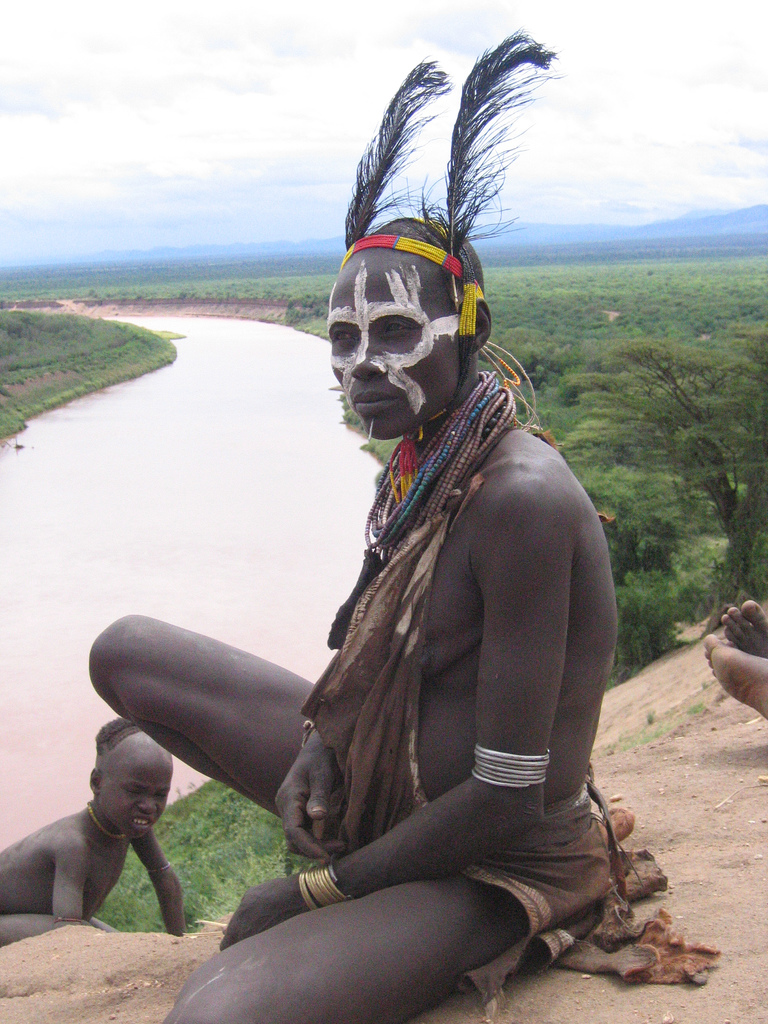 Karo woman (Lower Omo, Ethiopia)